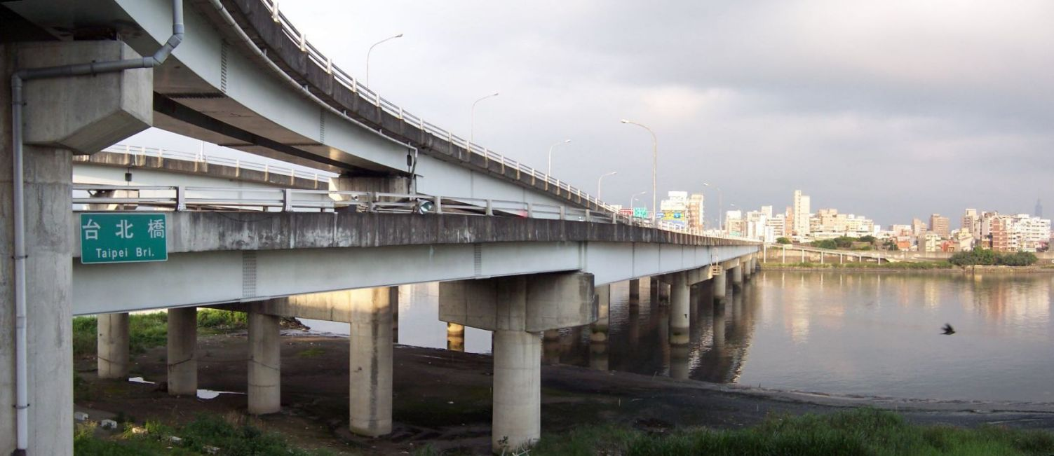 Photo of Taipei Bridge (台北大橋) taken in April 2008 from the Sanchong (三重) approach on the shore of the Tamsui River (淡水河).